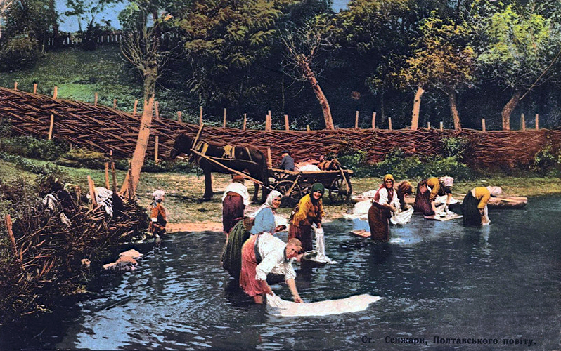 Postcard photo of Ukrainian women from the village of Stari Sanzhari, Poltava region.